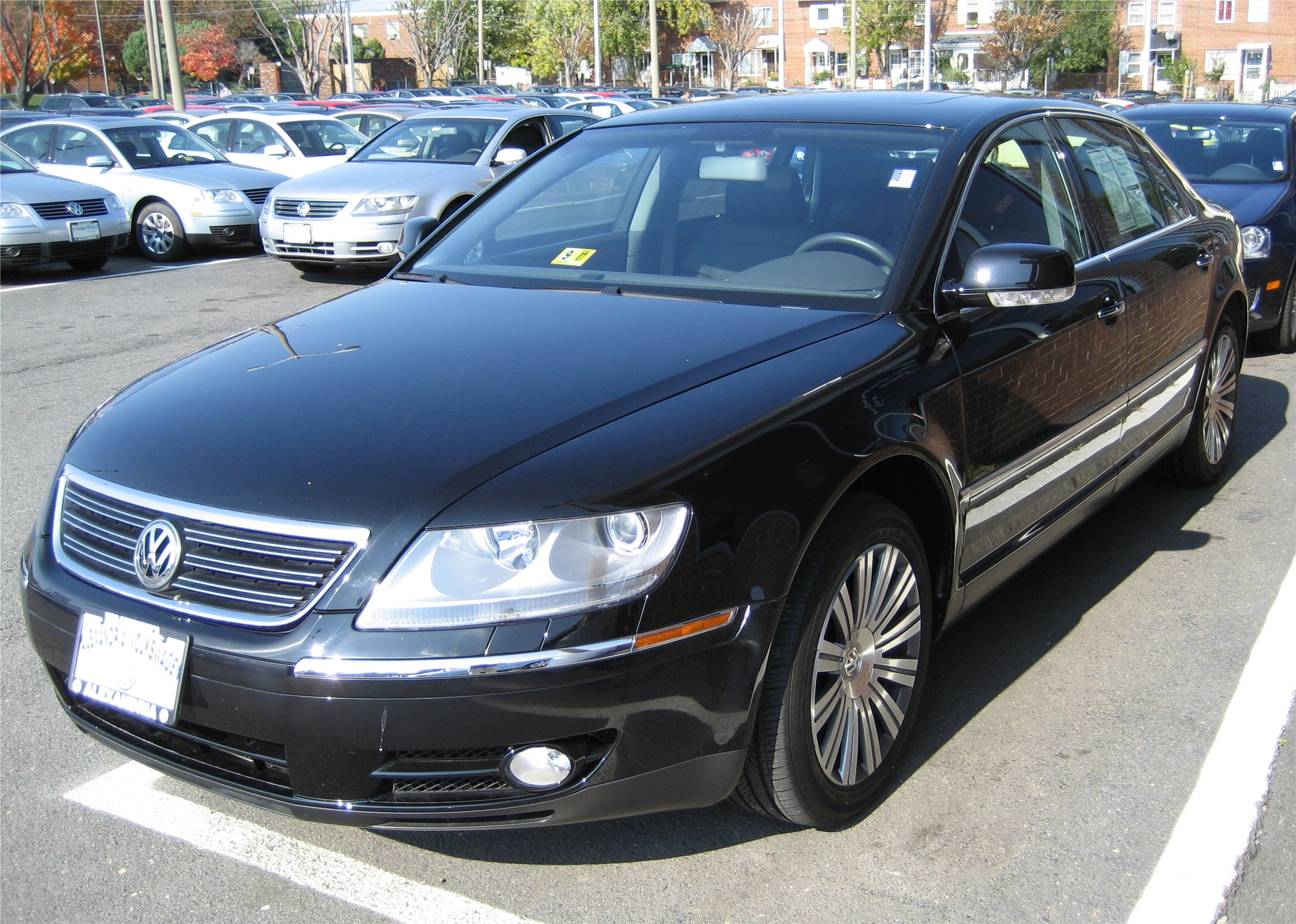 2006 Volkswagen Phaeton 4.2 V8. Photographed by Jagvar at Volkswagen of Alexandria in Alexandria, Virginia on October 22, 2006.